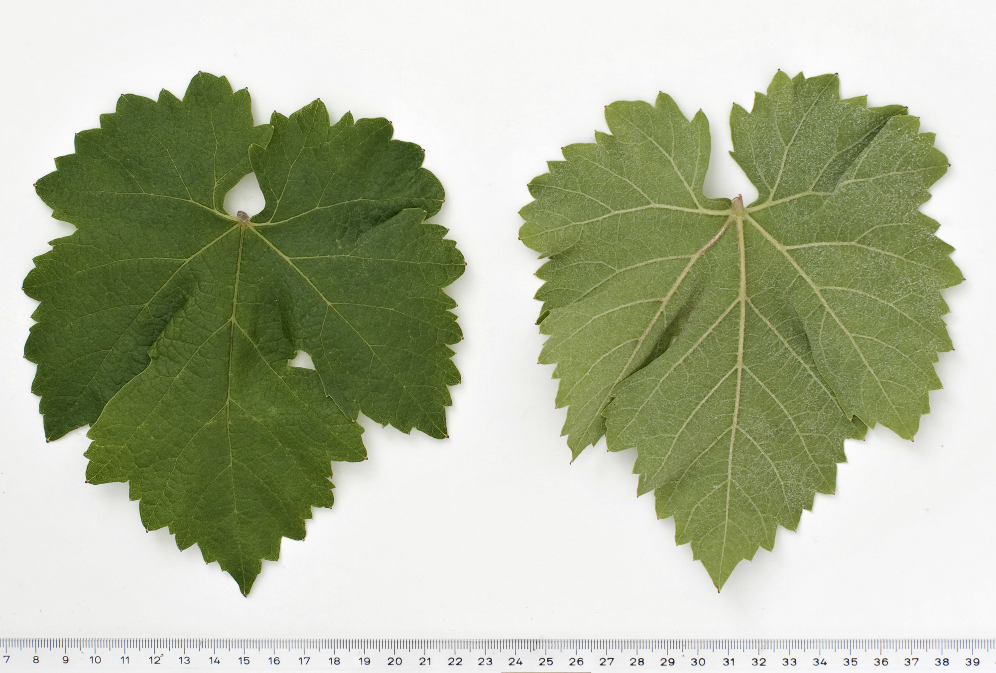 Leaf of the grape variety Gera. Upper and lower surface.